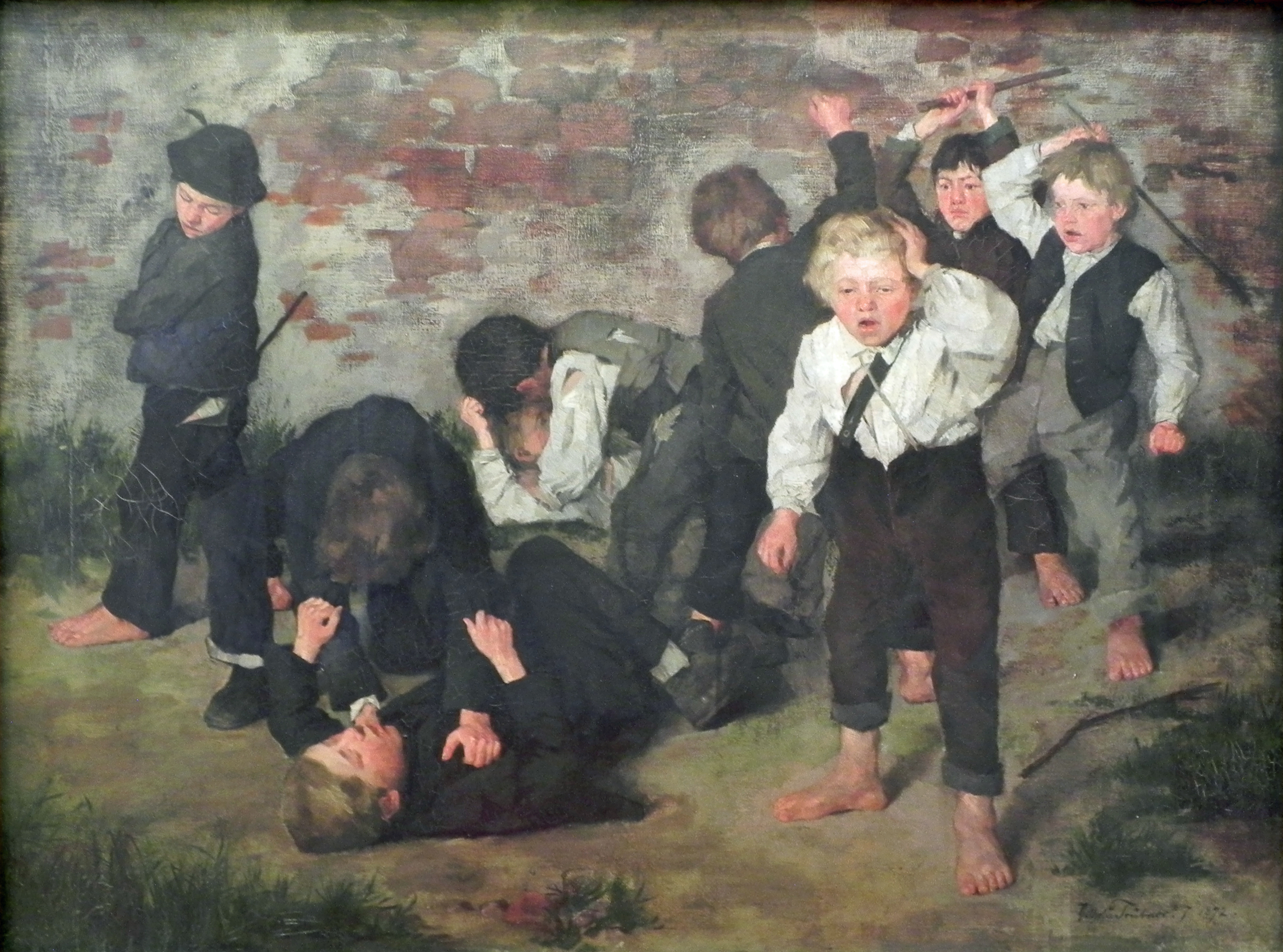 The artist painted the boys individually in his studio and then joined everything in the painting